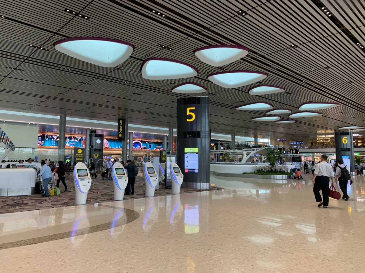 Changi Airport - Terminal 4 - Departure